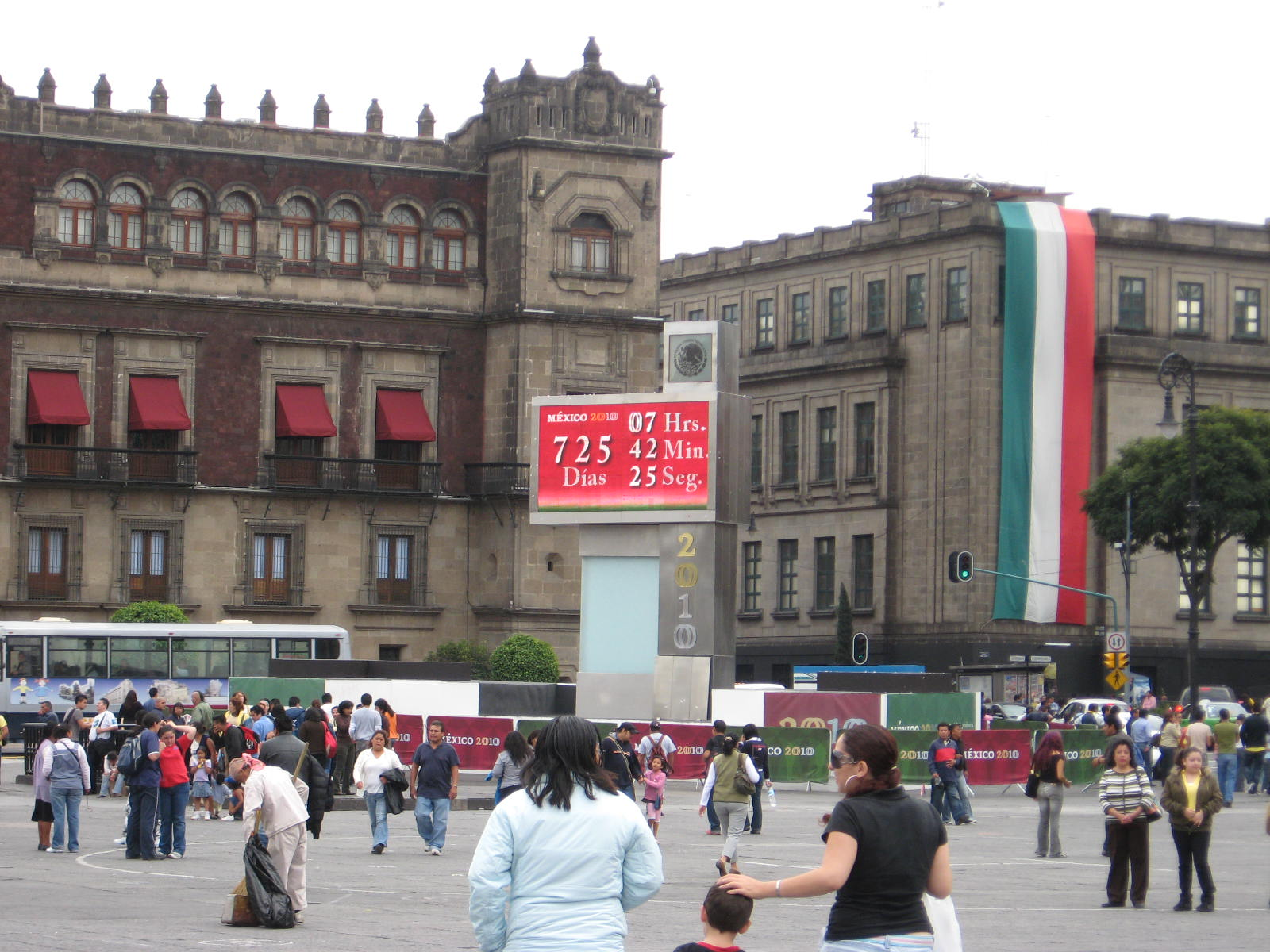 Countdown clock to Mexico's Bicentennial celebration on 15 September 2010 as taken on 19 September 2008. Located in the main plaza or Zocalo of Mexico City